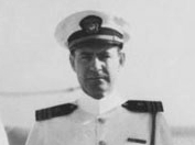 LCDR. John E. Gingrich, USN on USS Idaho (BB-42), circa 1938.